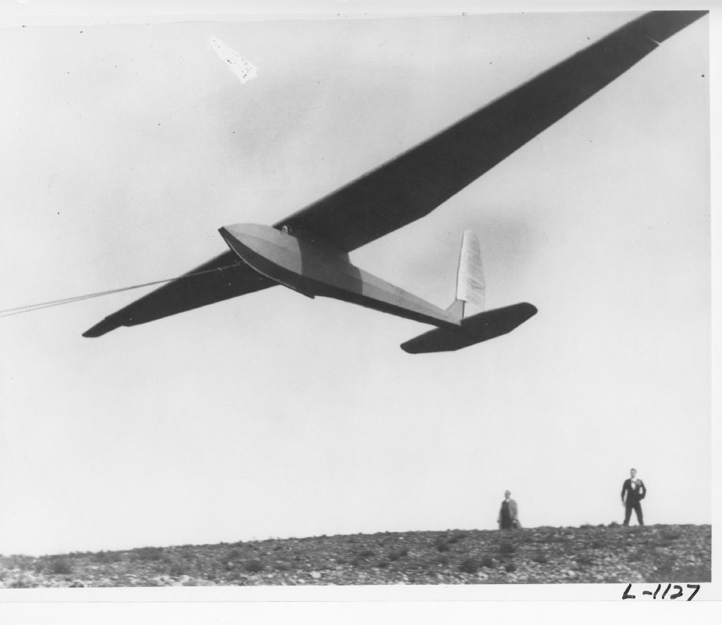 Anne Lindbergh flying a Bowlus sailplane on launch